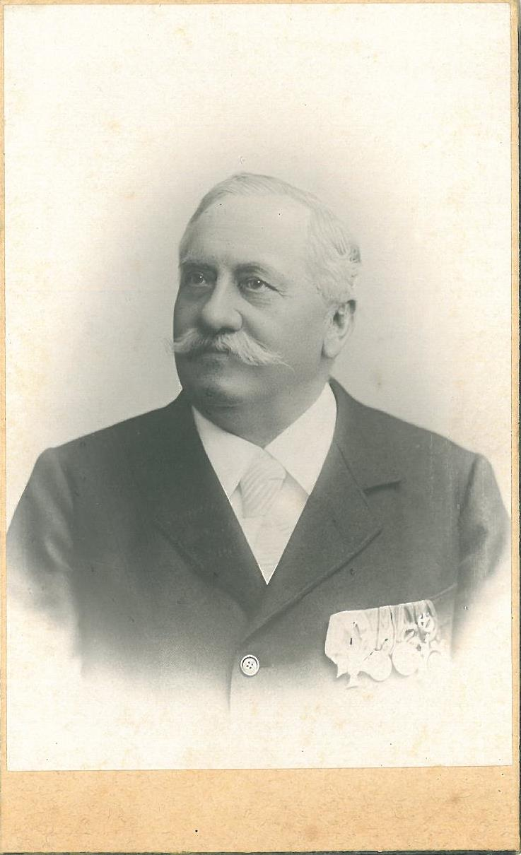 Franz Sales Günter (1830-1901), mayor of the city of Oberndorf am Neckar from 1870-1899